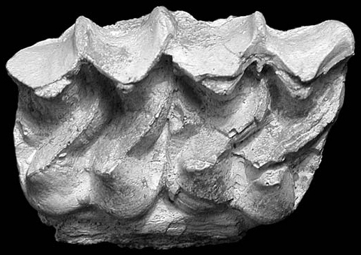 Sinohippus sampelayoi, MNCN 50110. Occlusal view of fragment of right maxilla with P3–P4.